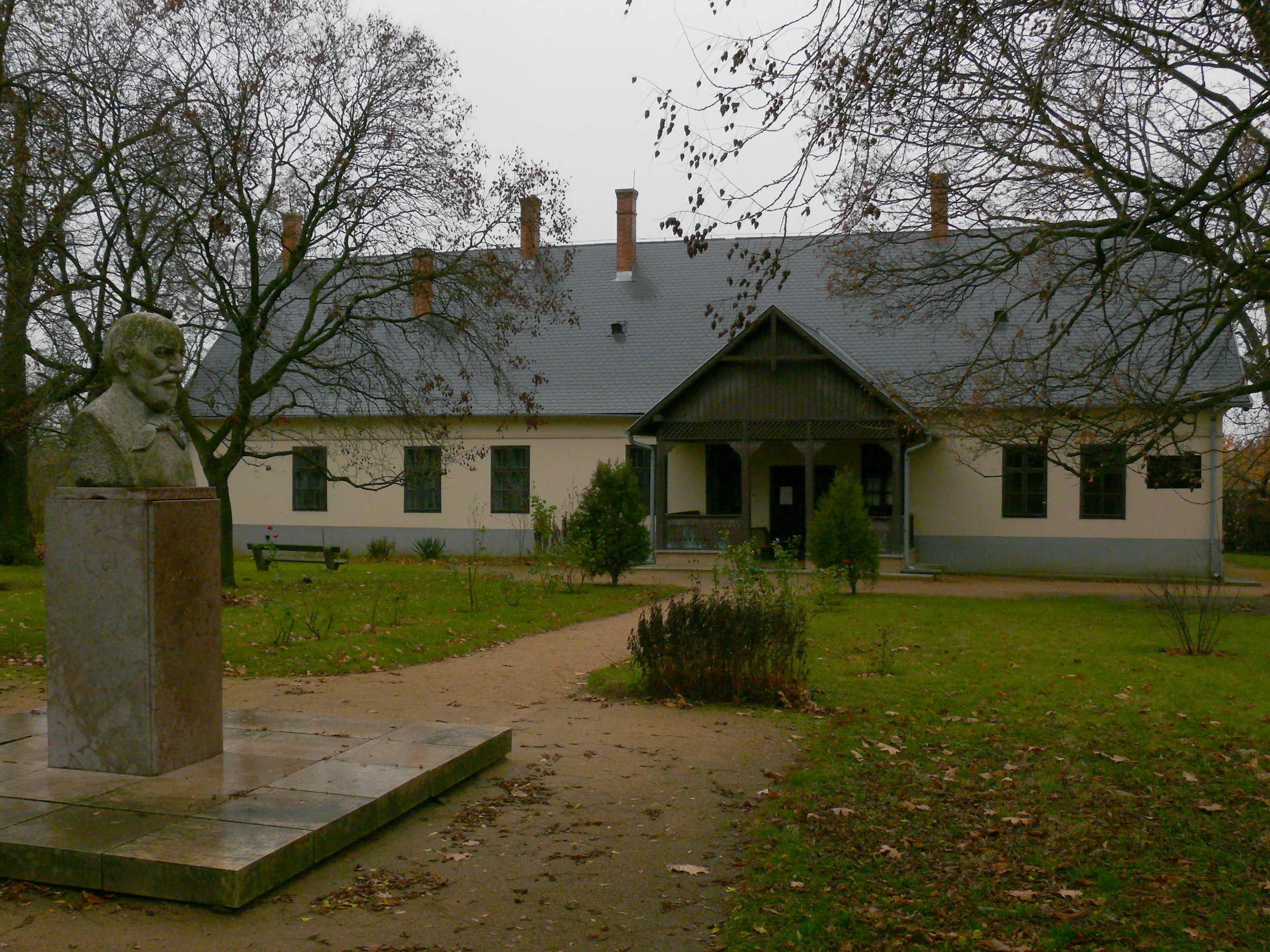 Mihály Vörösmarty Memorial Museum, Kápolnásnyék, Hungary